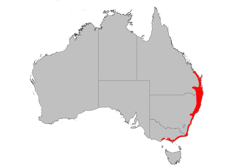 Distribution of Banksia integrifolia